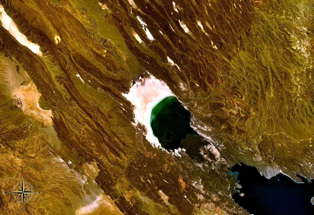 Lake Assal in Djibouti. Satellite view.